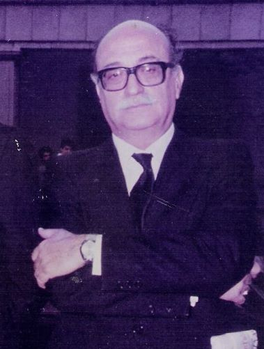 Fernando & Quino Sagaseta